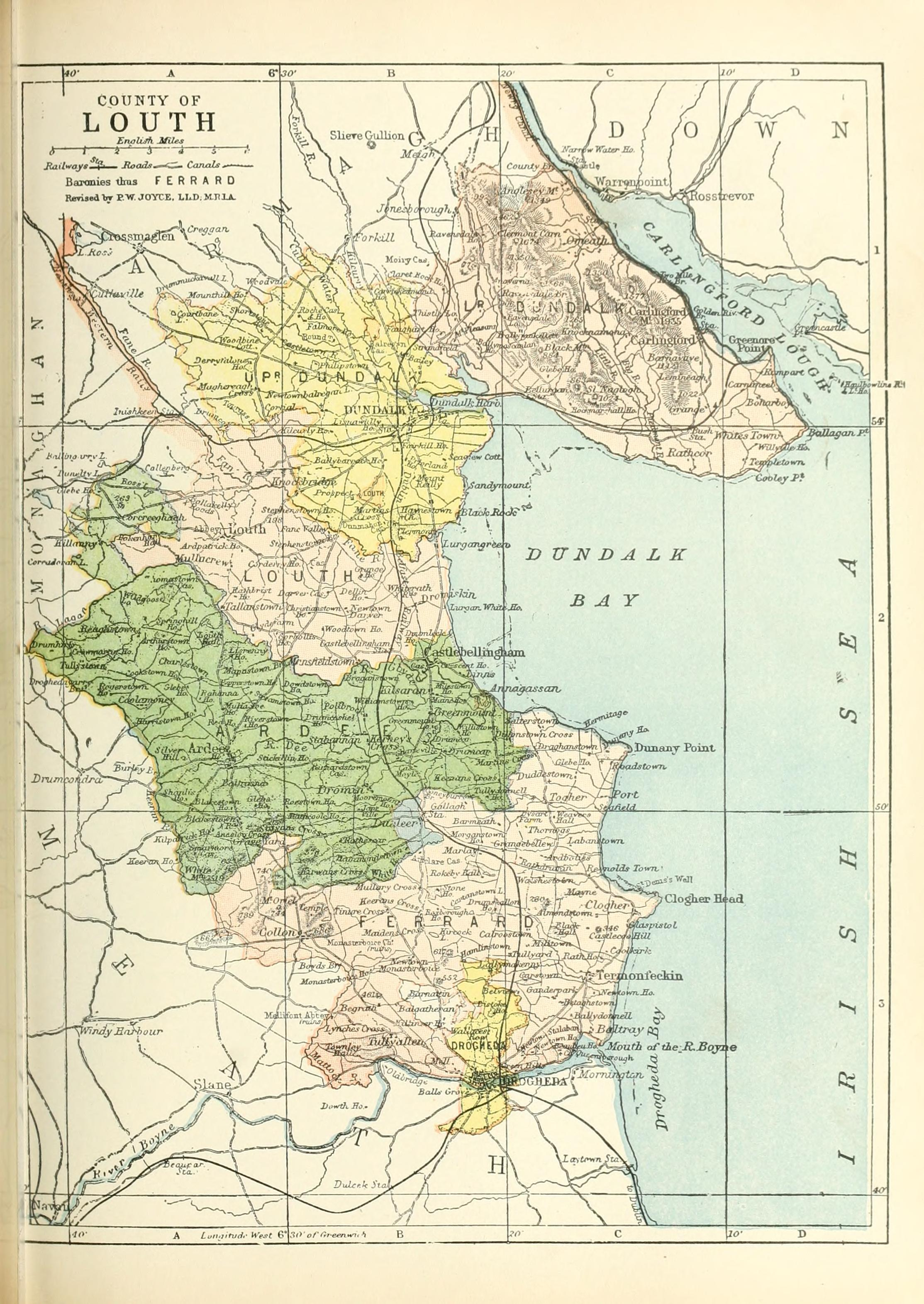 Map of the baronies of County Louth in Ireland; taken from Atlas and cyclopedia of Ireland, p.200